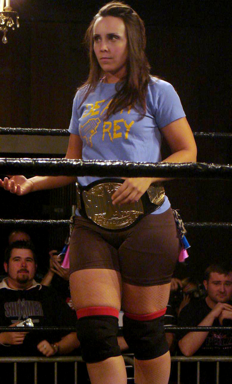 Sara Del Ray at a SHIMMER - Women Athletes event. Eagles Club, Berwyn, IL, October 13, 2007.